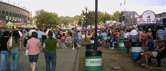 Main concourse of the 2006 Iowa State Fair.